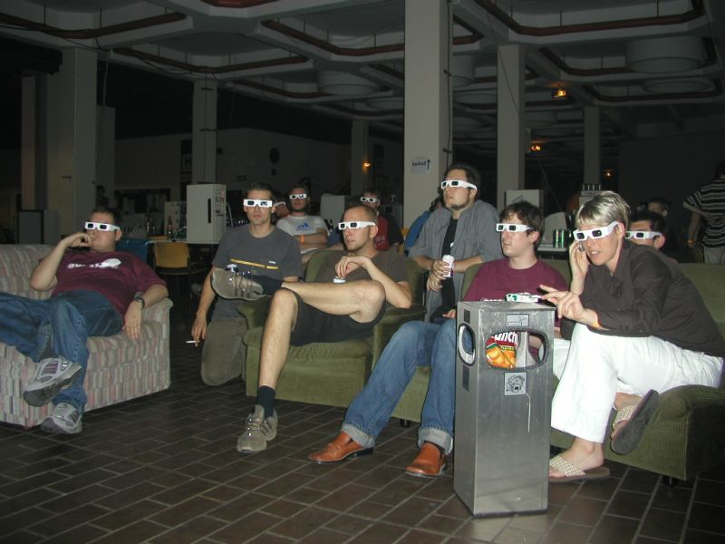 Evoke 2002: Spectators at one of the demoshow rooms watch computer animations in 3D.